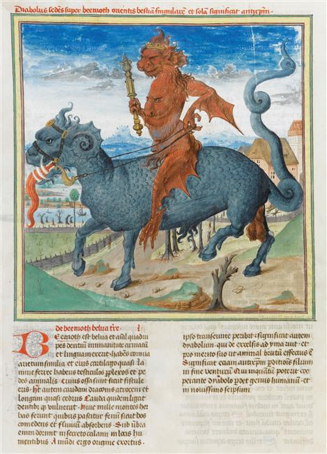 Ms 724/1596 from 'Liber Floridus' by Lambert de Saint-Omer, c.1448 (vellum)